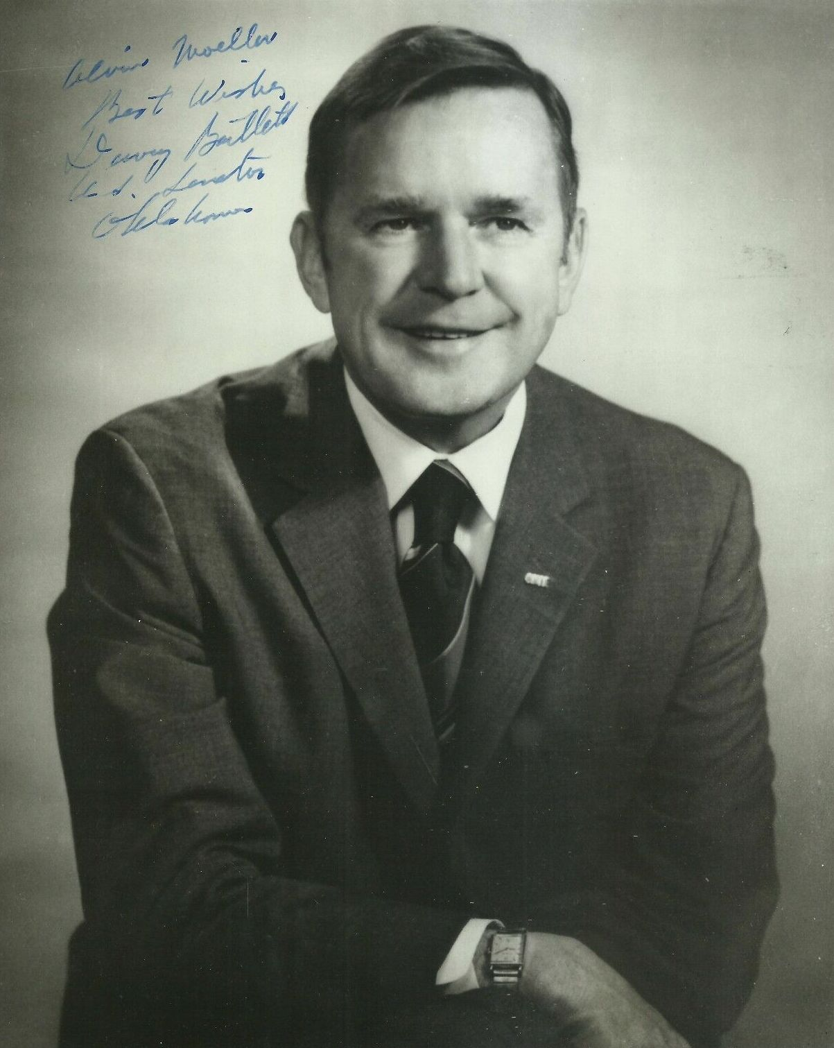 Portrait of Dewey Bartlett of Oklahoma